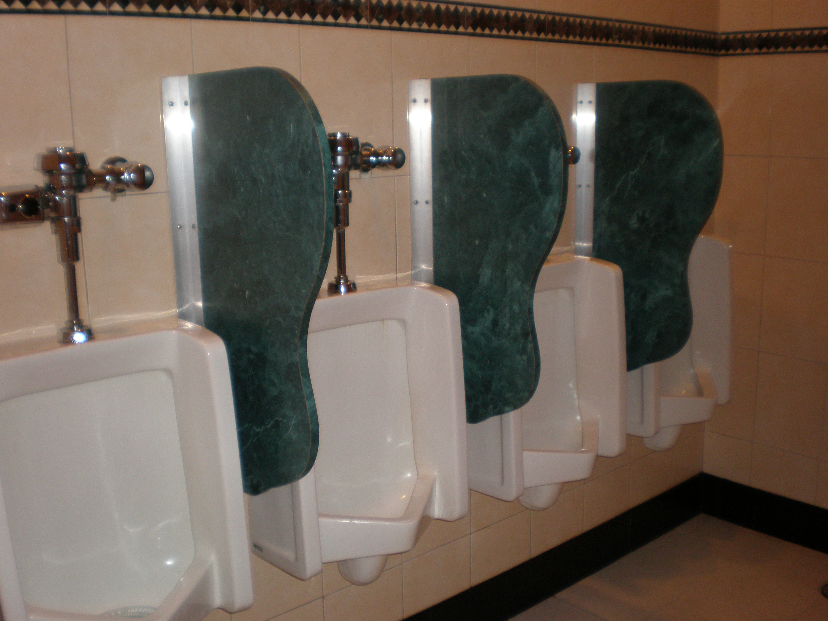 Urinals in a hotel in California.